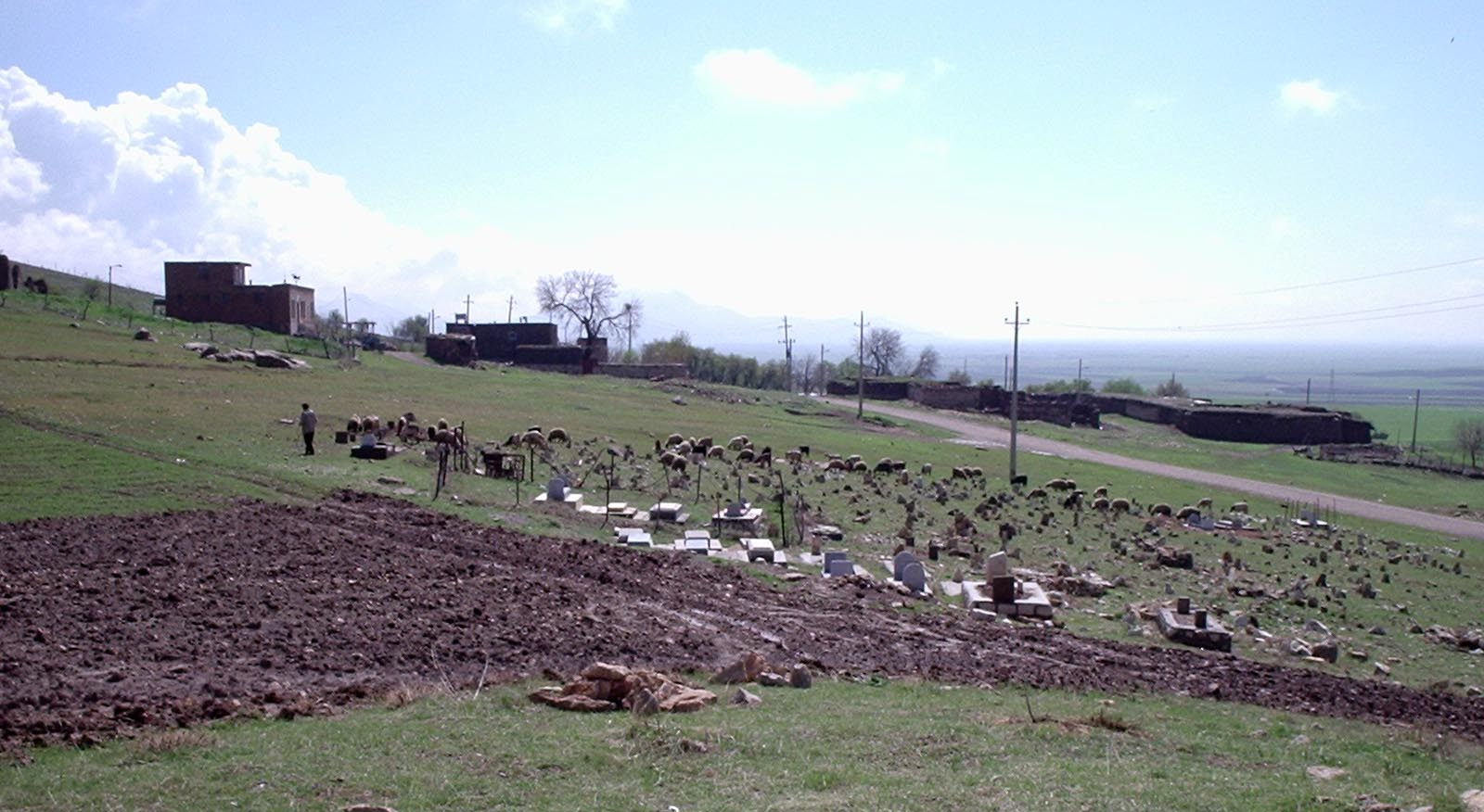 Khanileh village from west